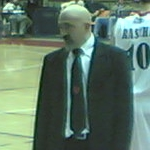 Picture of an Italian basketball coach